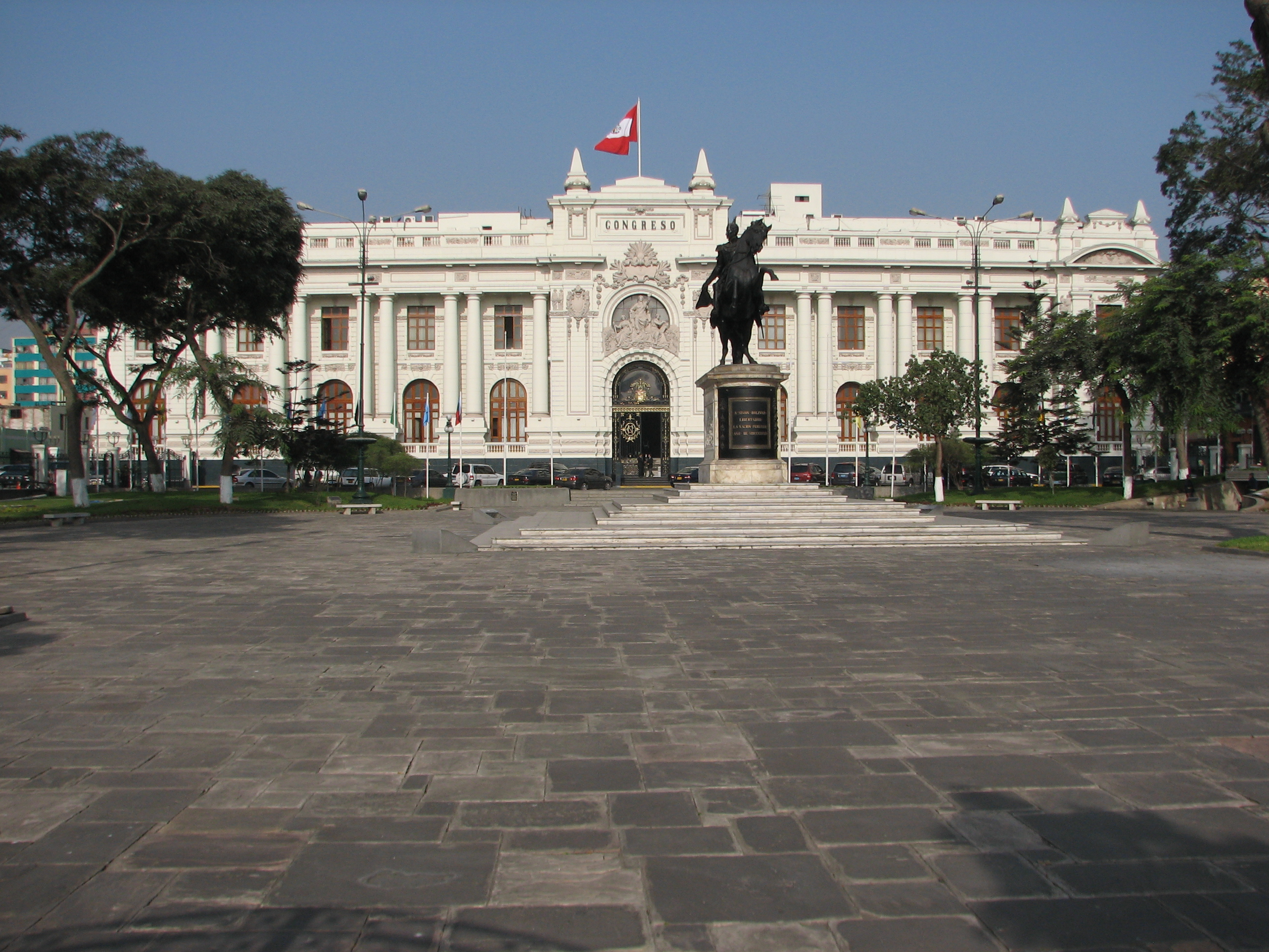 Parliament/Congreso in Lima, Peru.